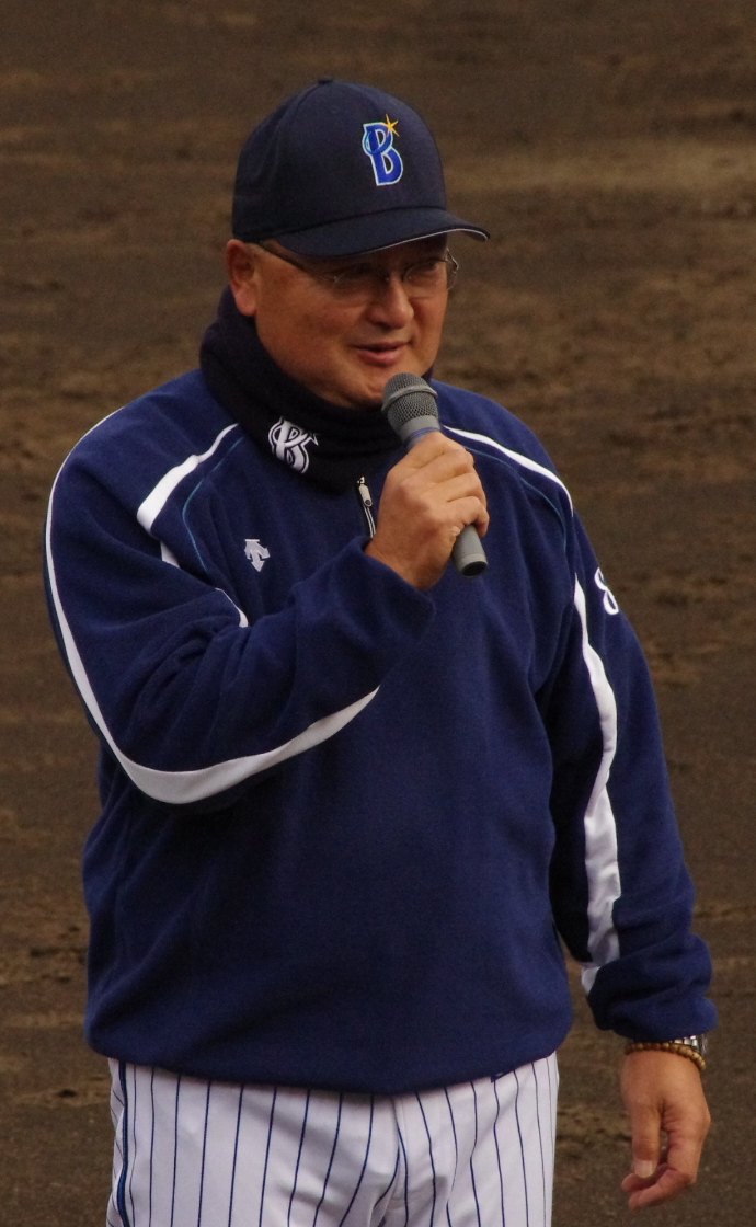 Daisuke Yamashita, manager of the Yokohama DeNA BayStars' farm team, at Hiratsuka Baseball Stadium.